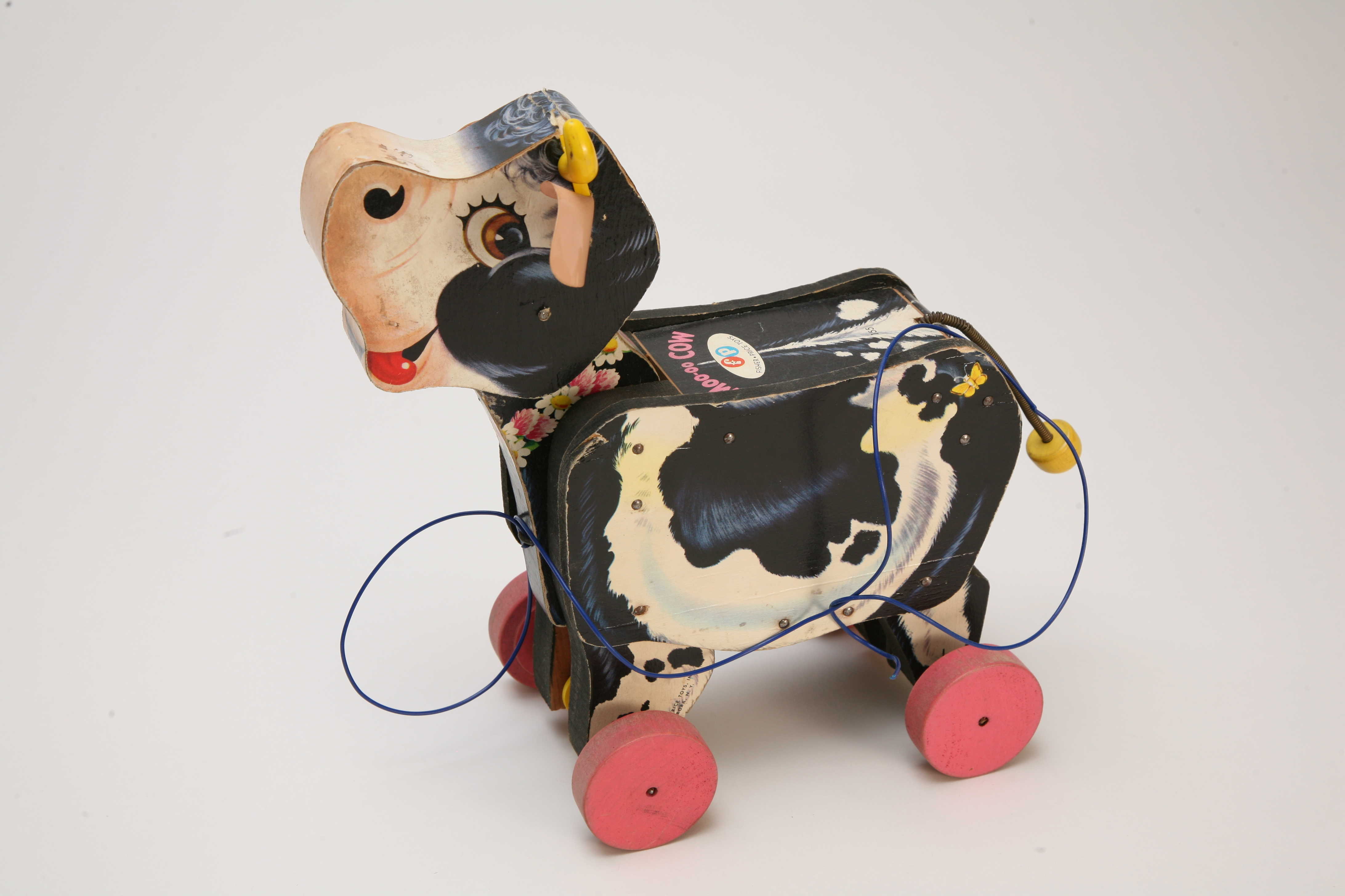 A Moo-oo Cow pull toy in the permanent collection of The Children’s Museum of Indianapolis.